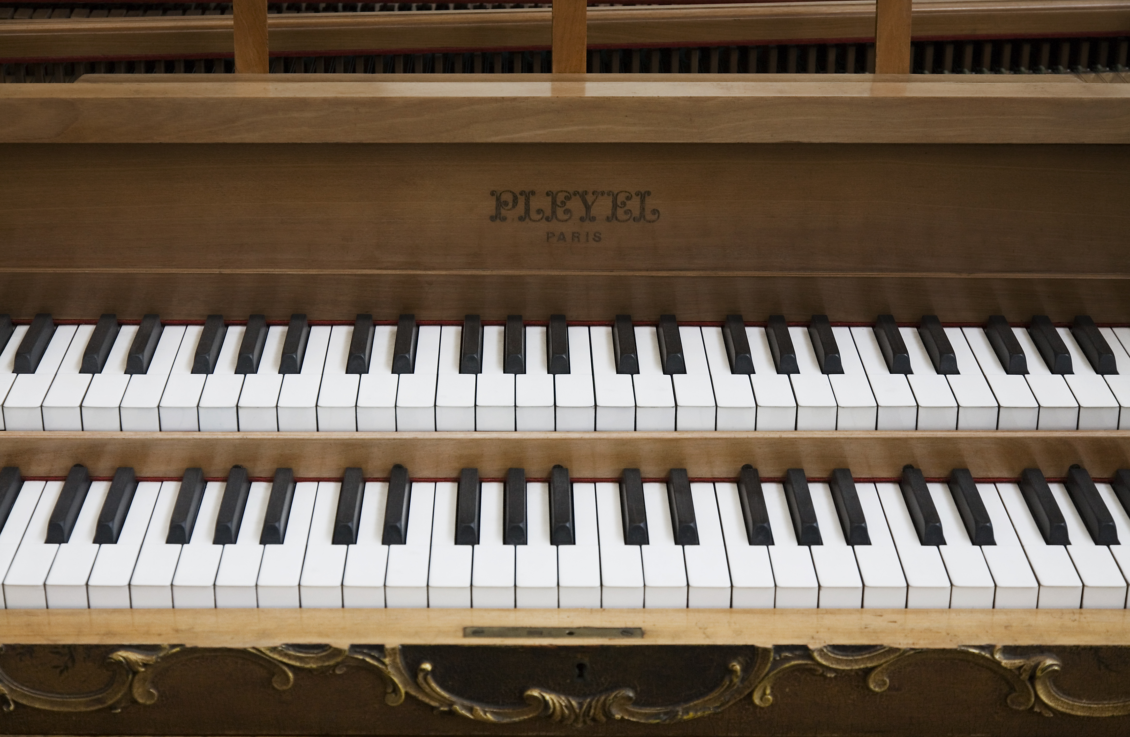 Pleyel 1889 harpsichord double Keyboard